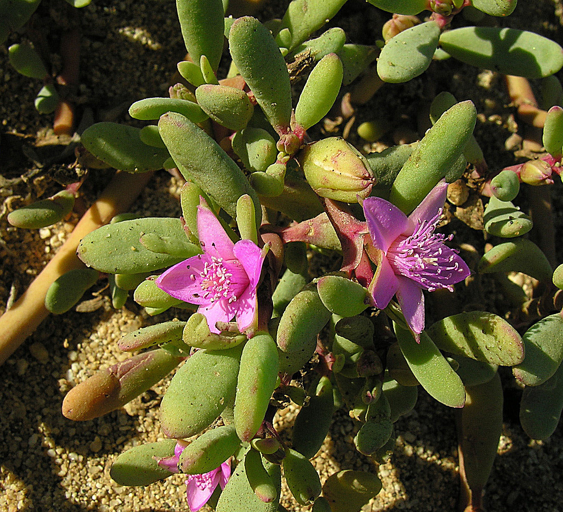 This succulent member of the Iceplant Family is found on beaches and other saline or alkaline locations, mainly in the Southwestern U.S. and Mexico. Photo from Pescadero Beach, Baja California.